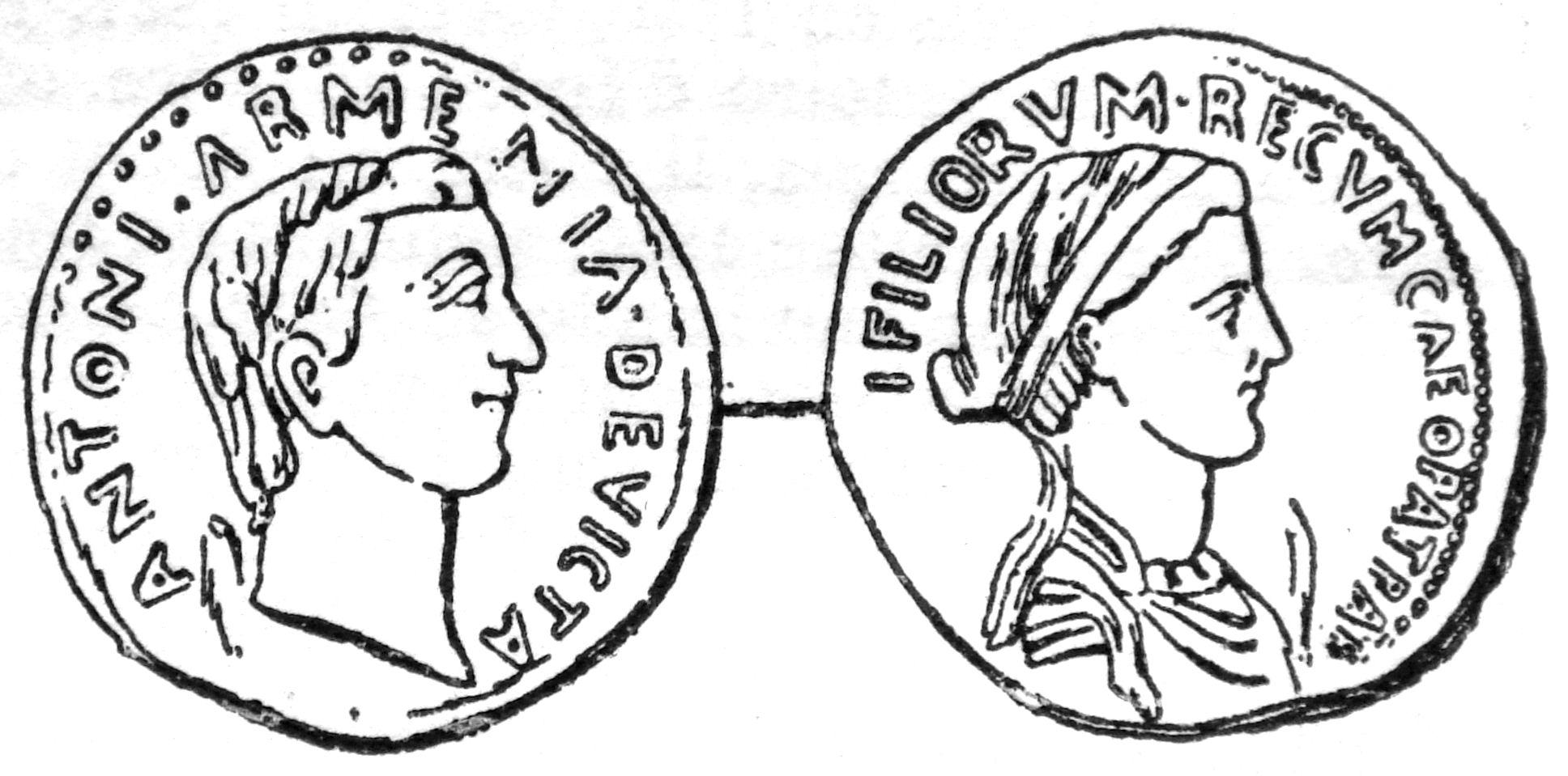 Denarius depicting Antony and Cleopatra. Sear# 440.